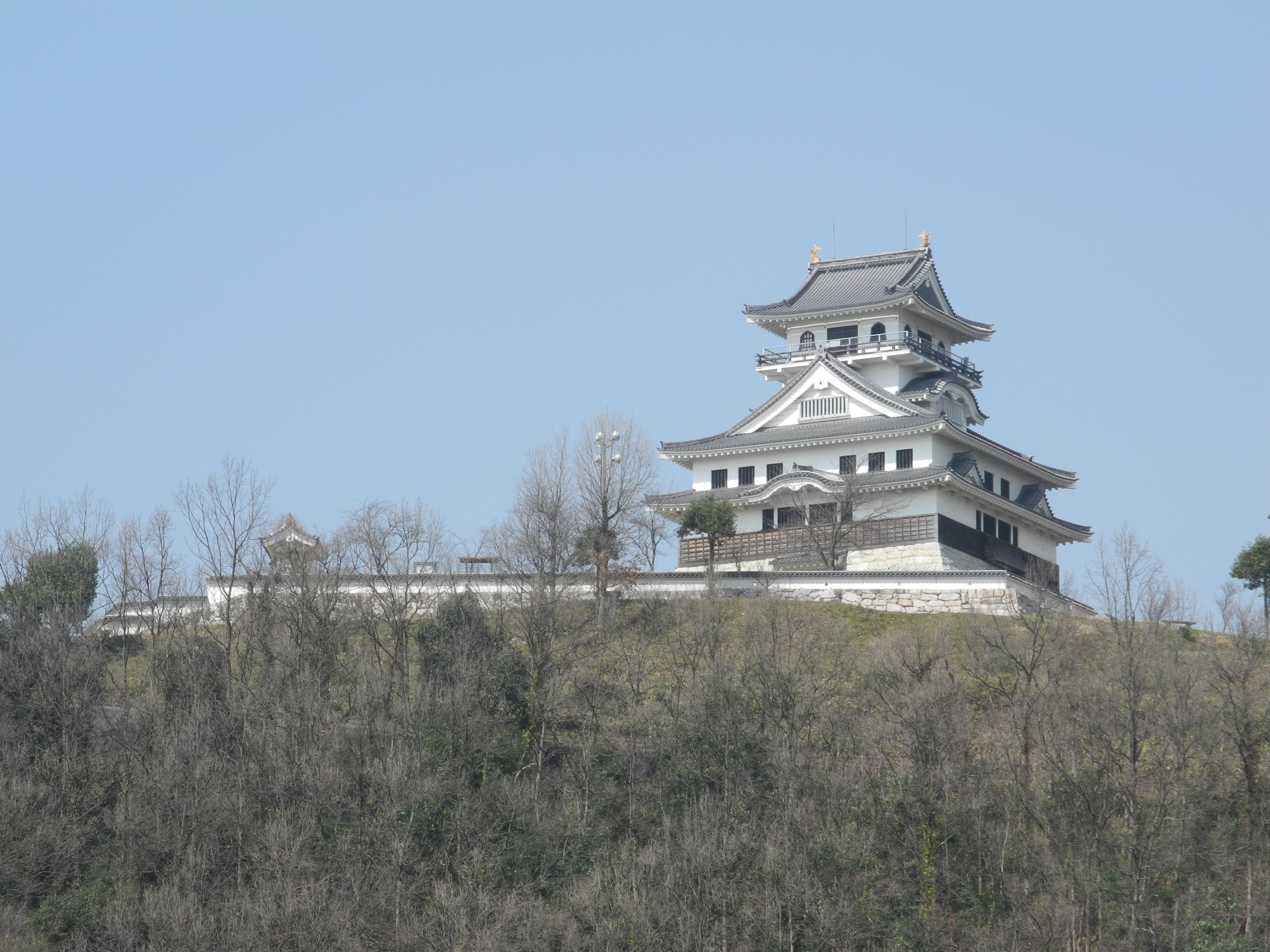 Kawahara Castle, Kawahara, Tottori, Japan